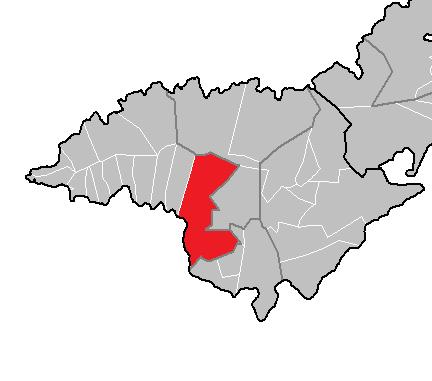 Locator map of Leone village